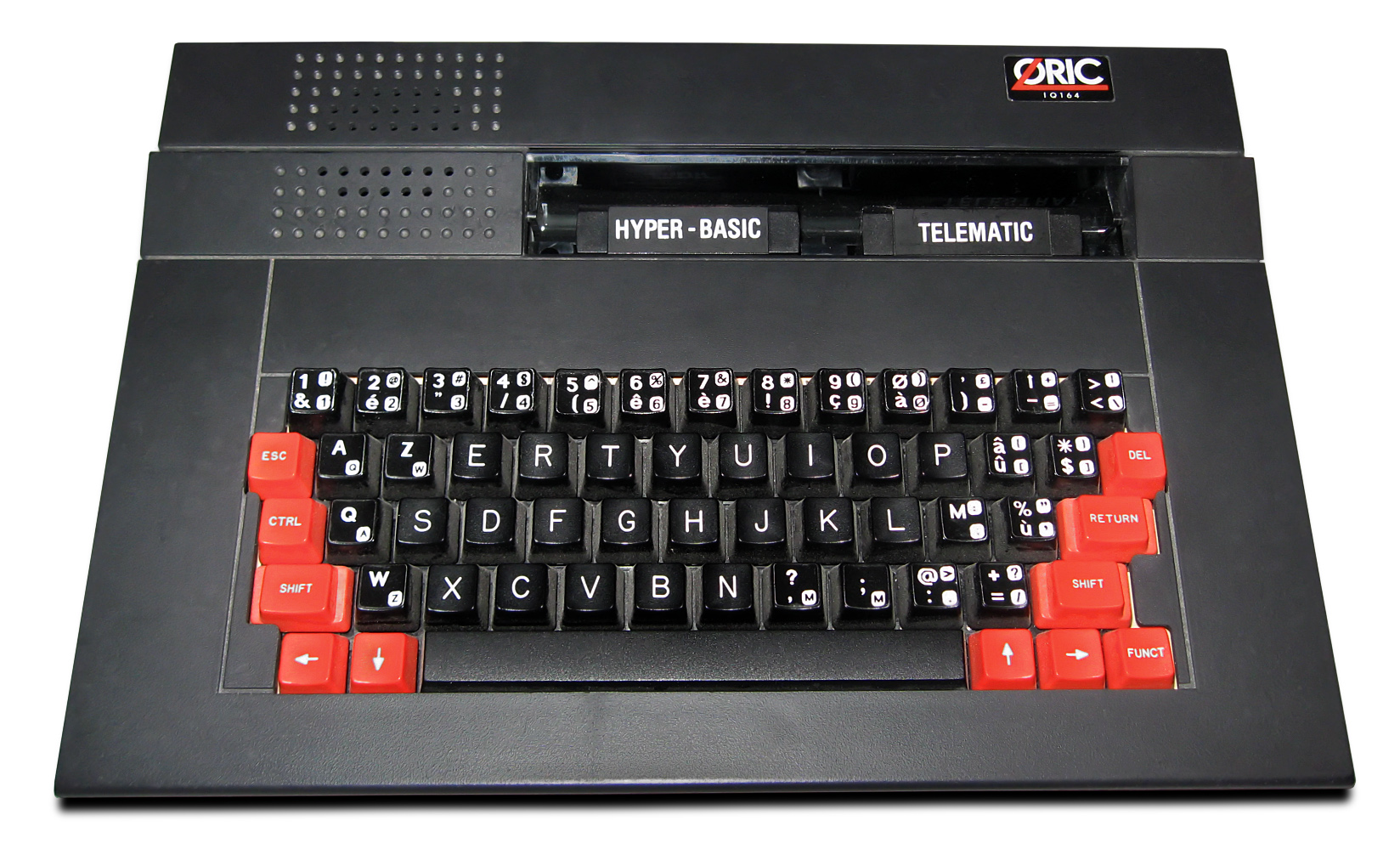 Photo of an Oric Telestrat. This machine was produced in 1986 as a successor of the Oric Atmos.